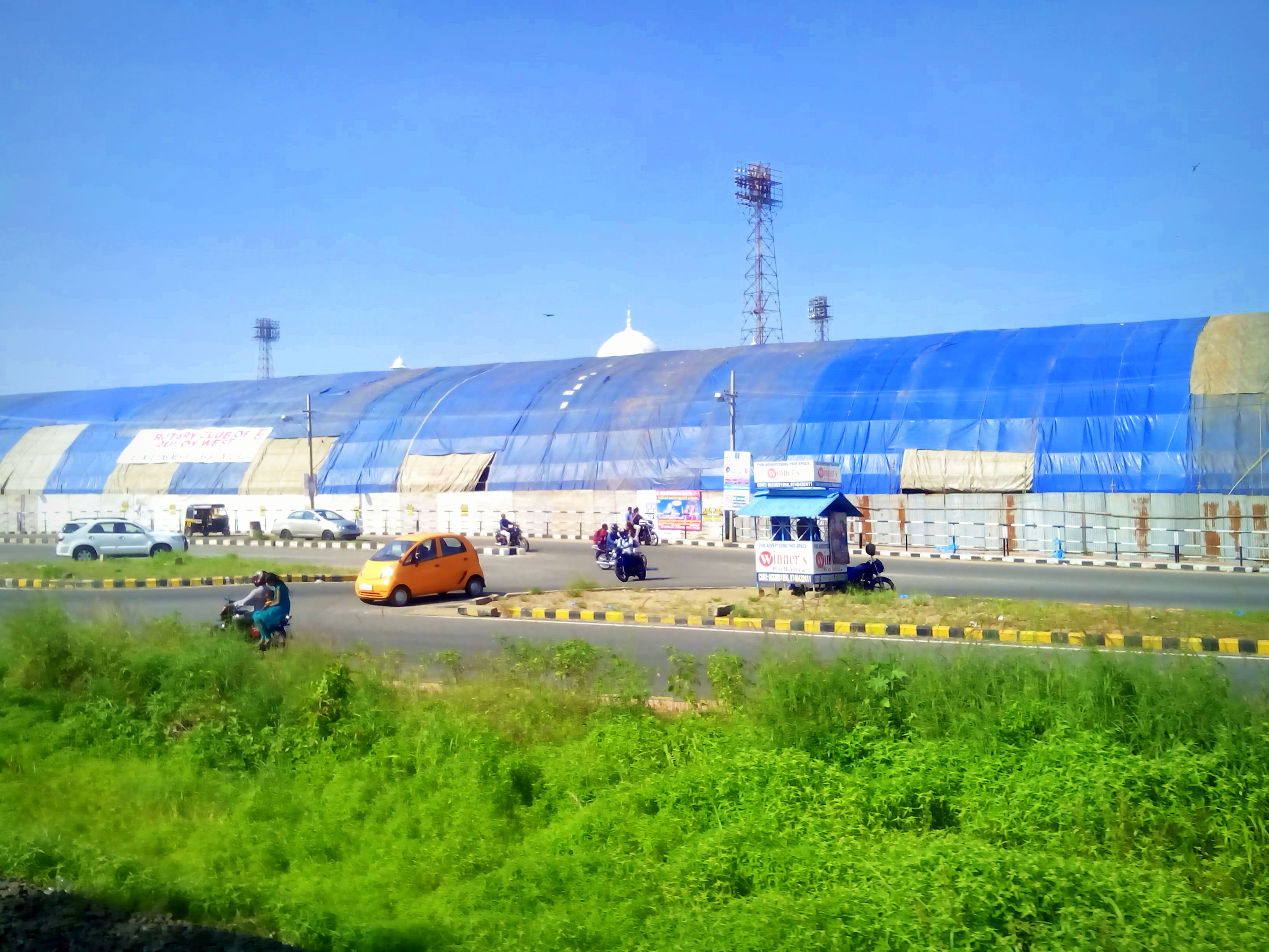 Exhibition at Cantonment Maidan, Kollam - Cantonment maidan is closely related with the history of Kerala